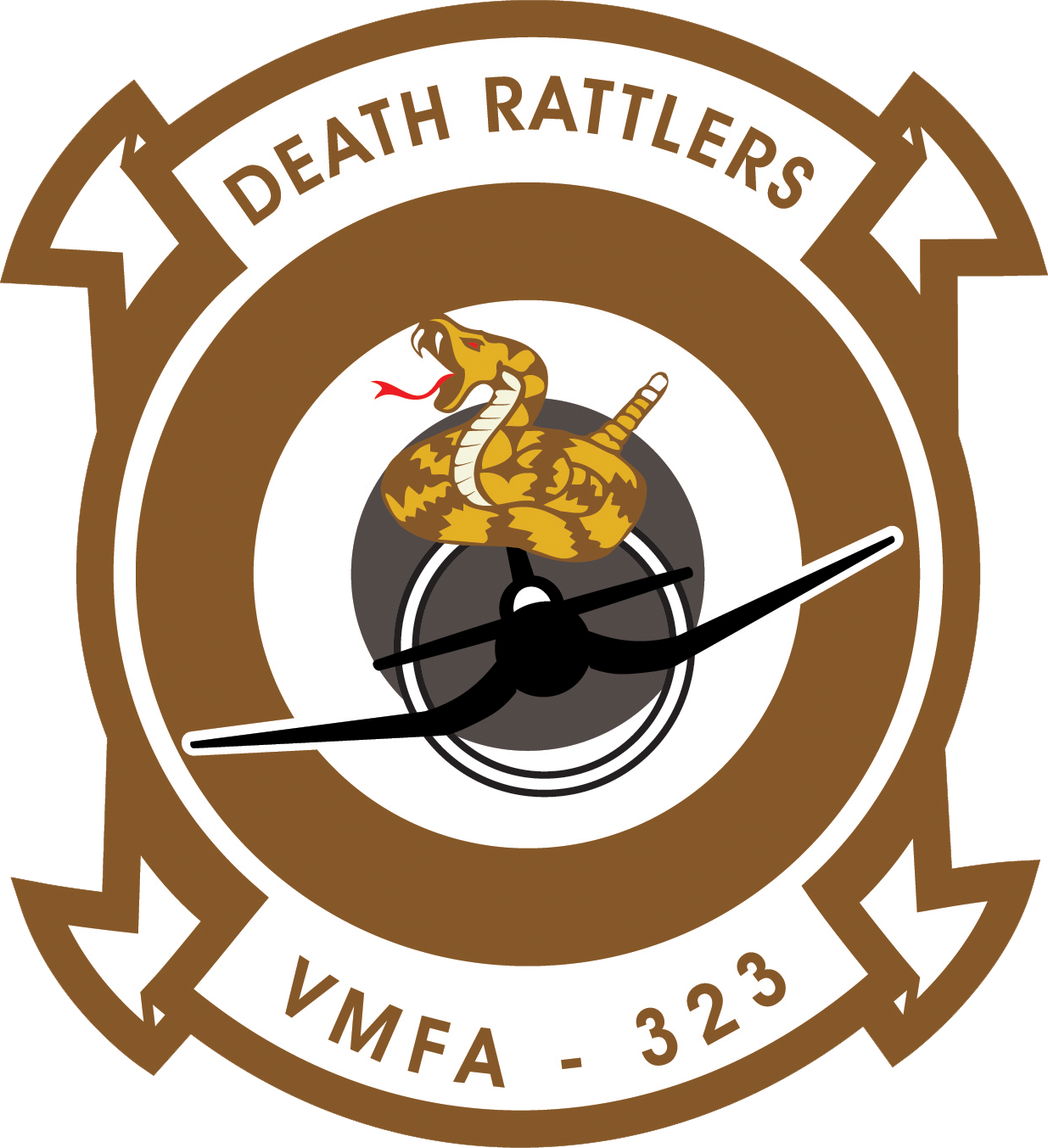 Squadron insignia for VMFA-323